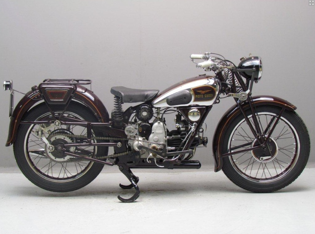 Moto Guzzi GTS 500 from 1938